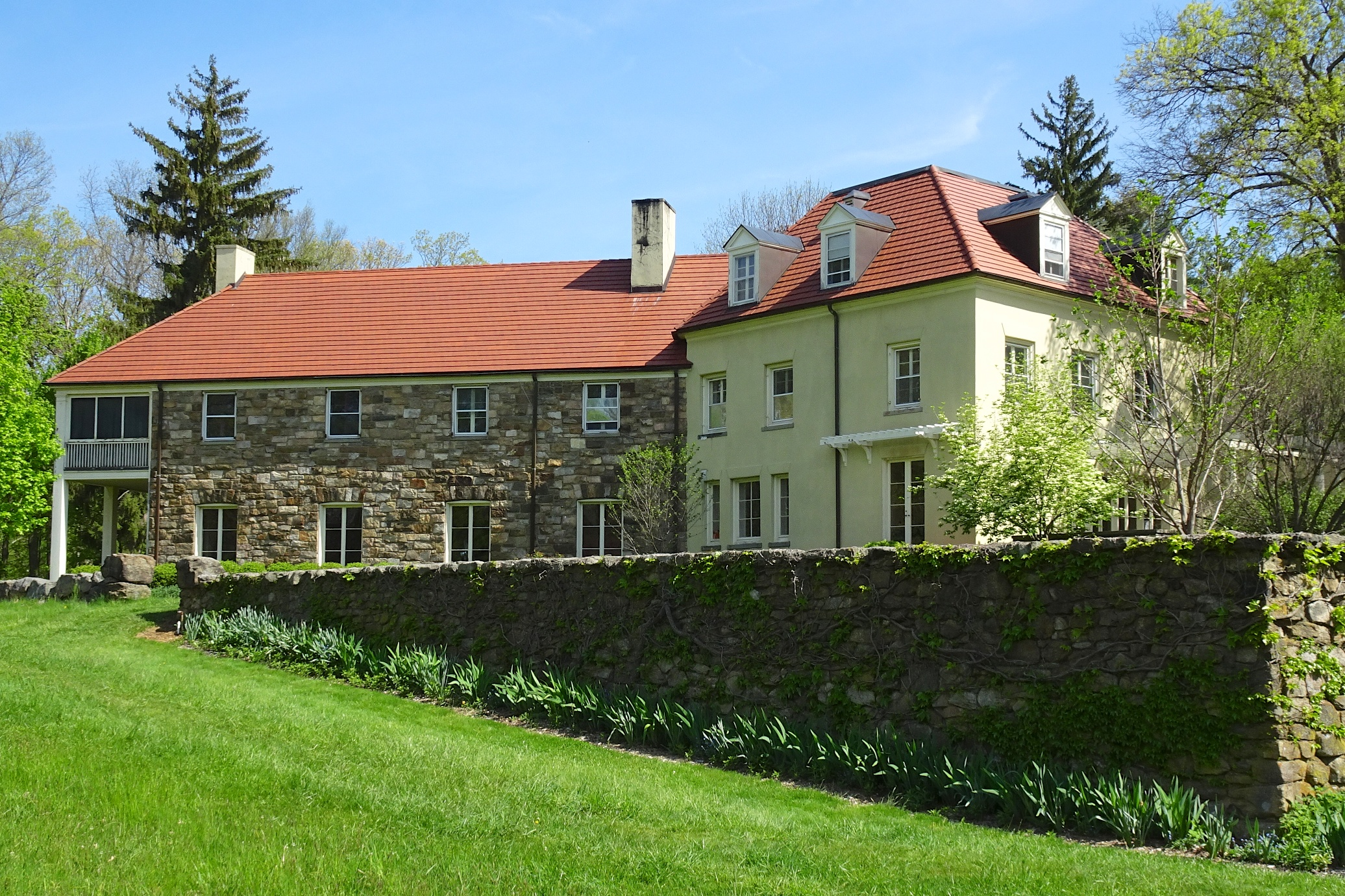 Main house at the Cross Estate Gardens in Bernardsville, NJ.